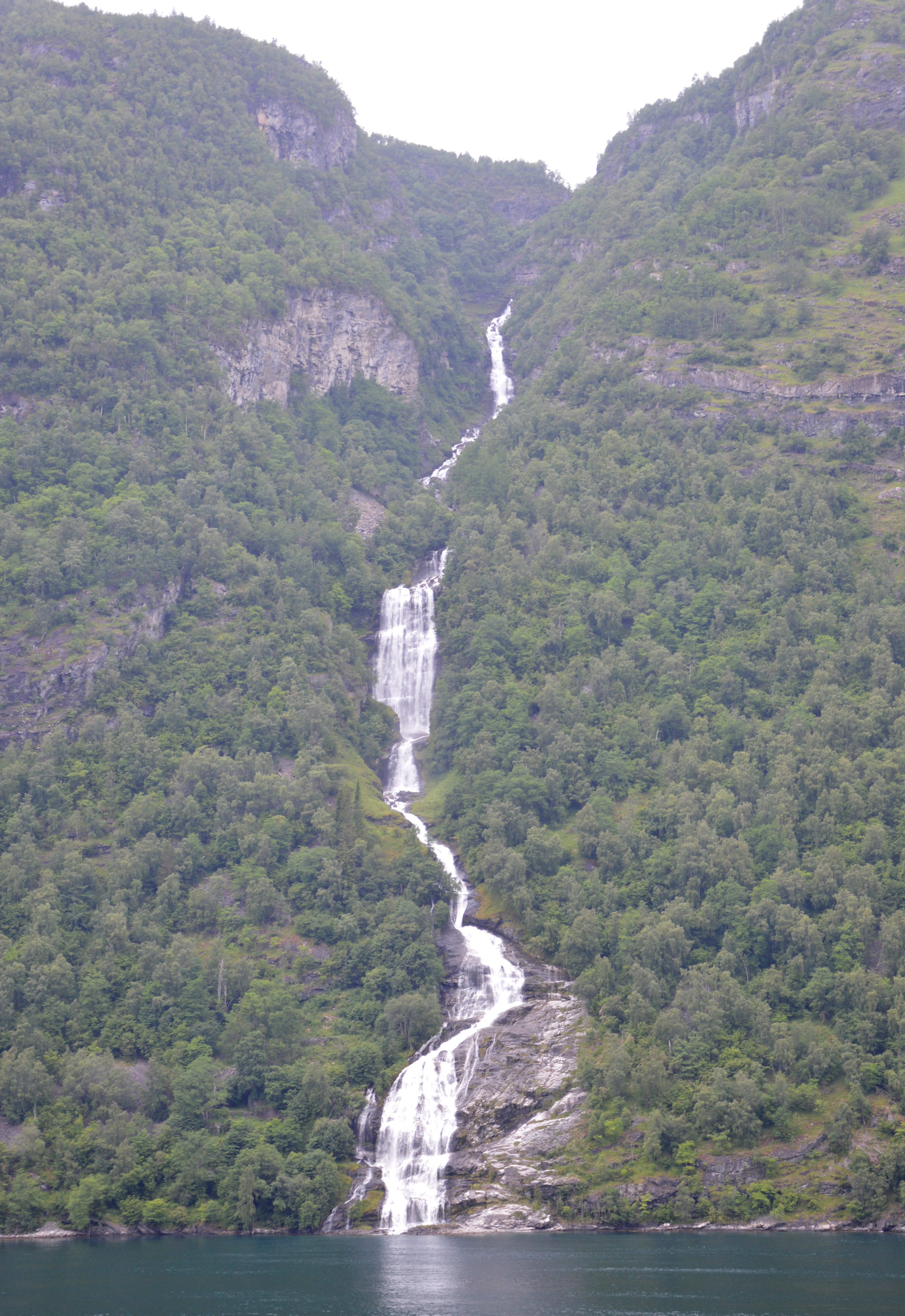 Friaren (the Suitor) waterfall, Geirangerfjorden, Norway.